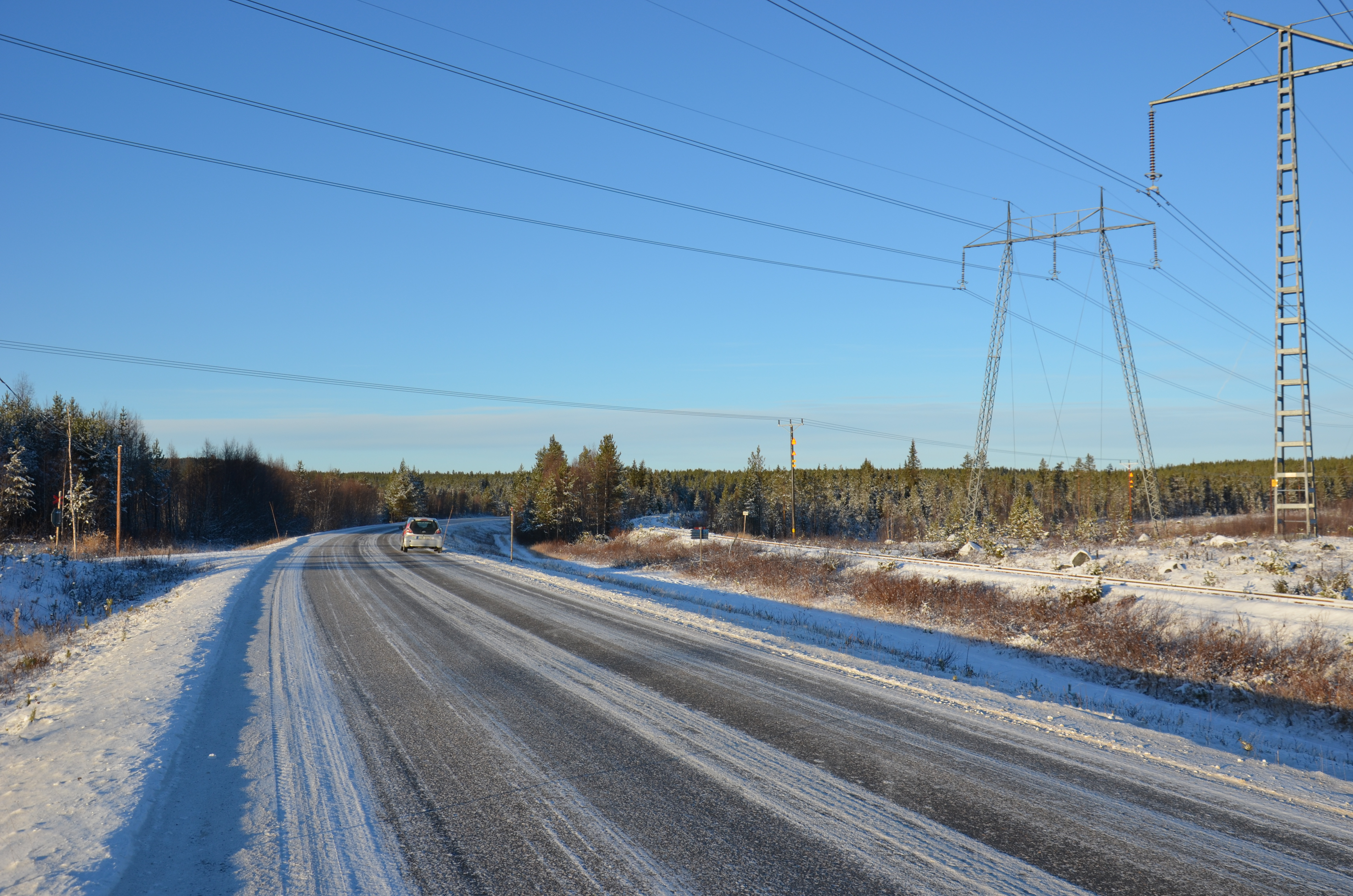 Harsprångslinjen korsar E45, efter att ha gått parallellt Inlandsbanan med Inlandsbanan, strax norr om Jokkmokk